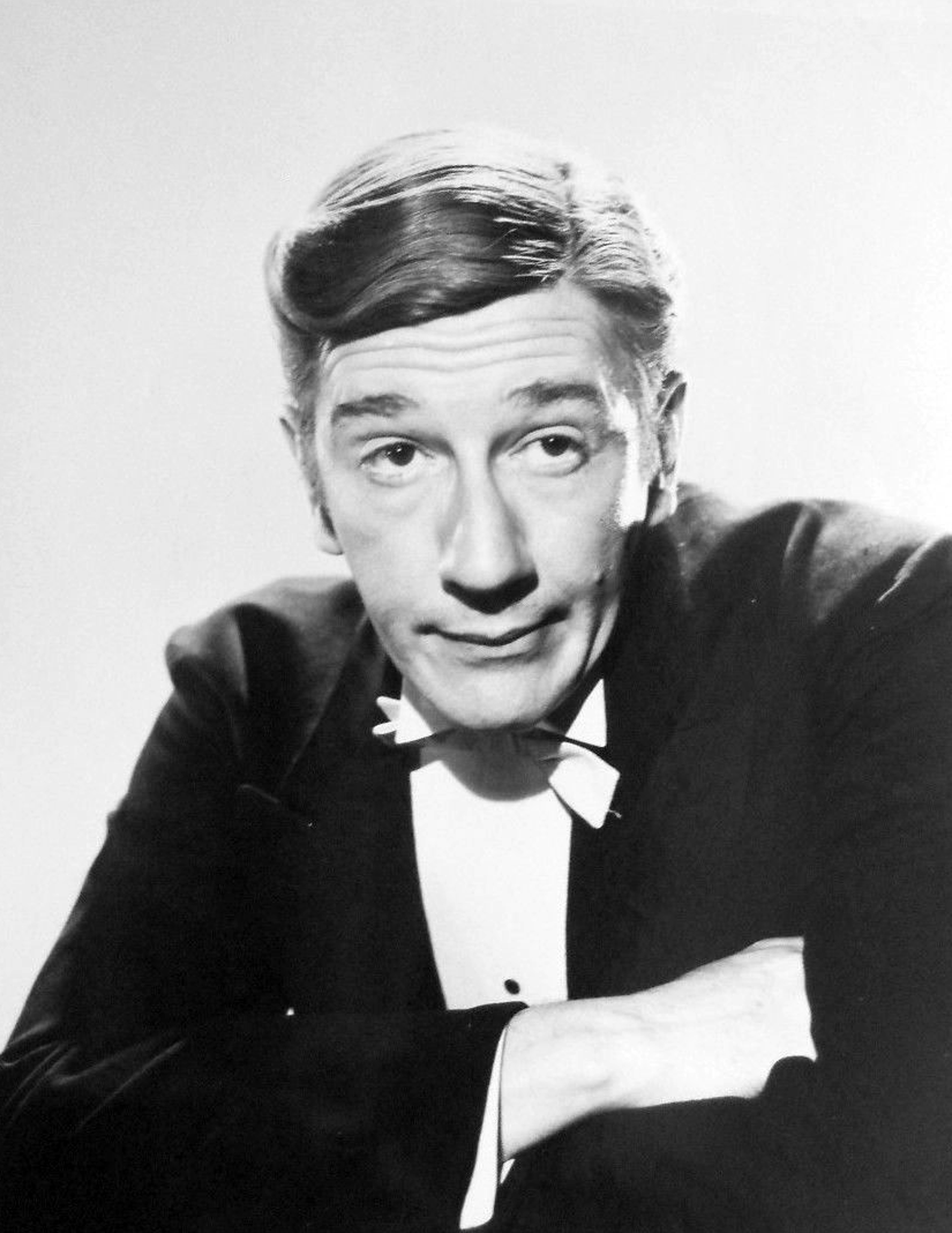 Actor Richard Haydn press wire photo, 1945